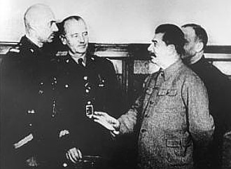 Stalin with Polish Prime Minister gen. Władysław Sikorski during his official visit in Soviet Union ( December 1941). Gen.Władysław Anders , CIC of Polish Army formed in SU ( later CiC of Polish Army) is present.(first to left)